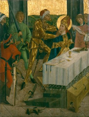 Painted on wood: Martydom of Saint Emmeram (Salzburg) from the Cathedral Treasury and Diocese Museum Eichstätt.